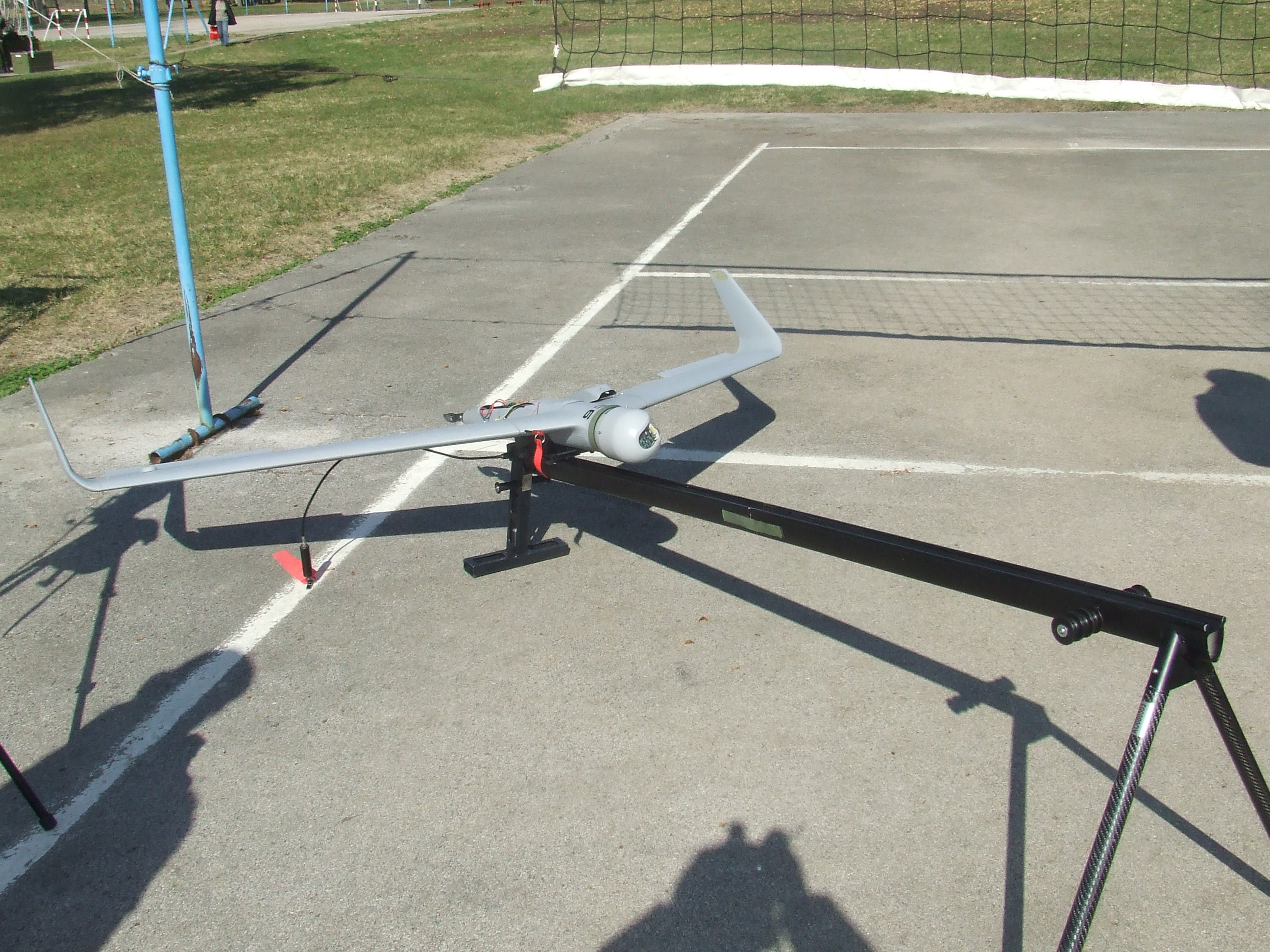 Drone "Orbiter" of Serbian army.